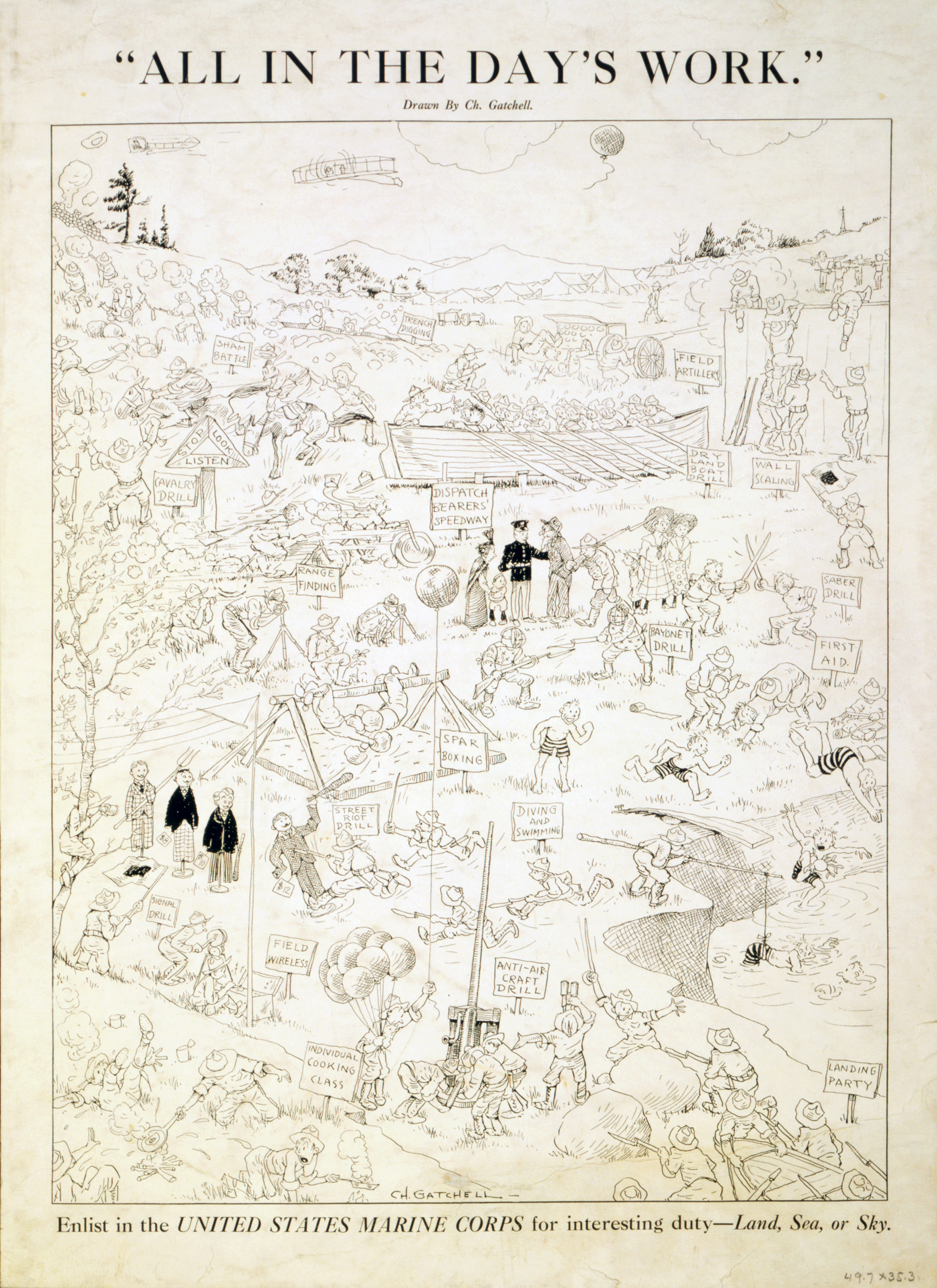 Title: "All in the day's work" Abstract: U.S. Marines recruitment poster showing recruits engaged in various activities at a Marine Corps training camp. Physical description: 1 photomechanical print (poster).